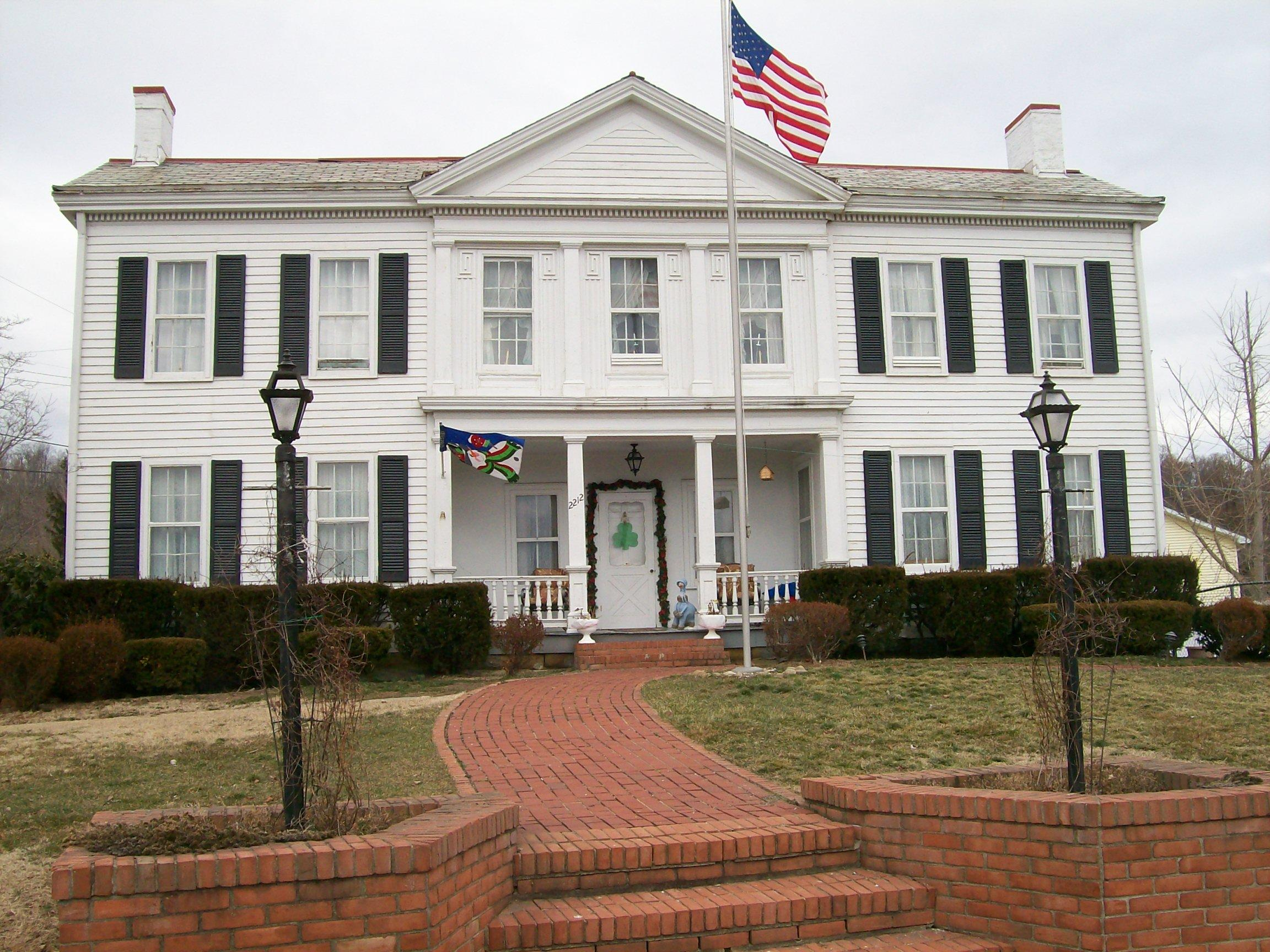 The Charles Rice Ames House in Belpre, Ohio. The house's south facade facing Miller Street is pictured. The house is listed on the NRHP for Washington County. Taken March 10, 2010.